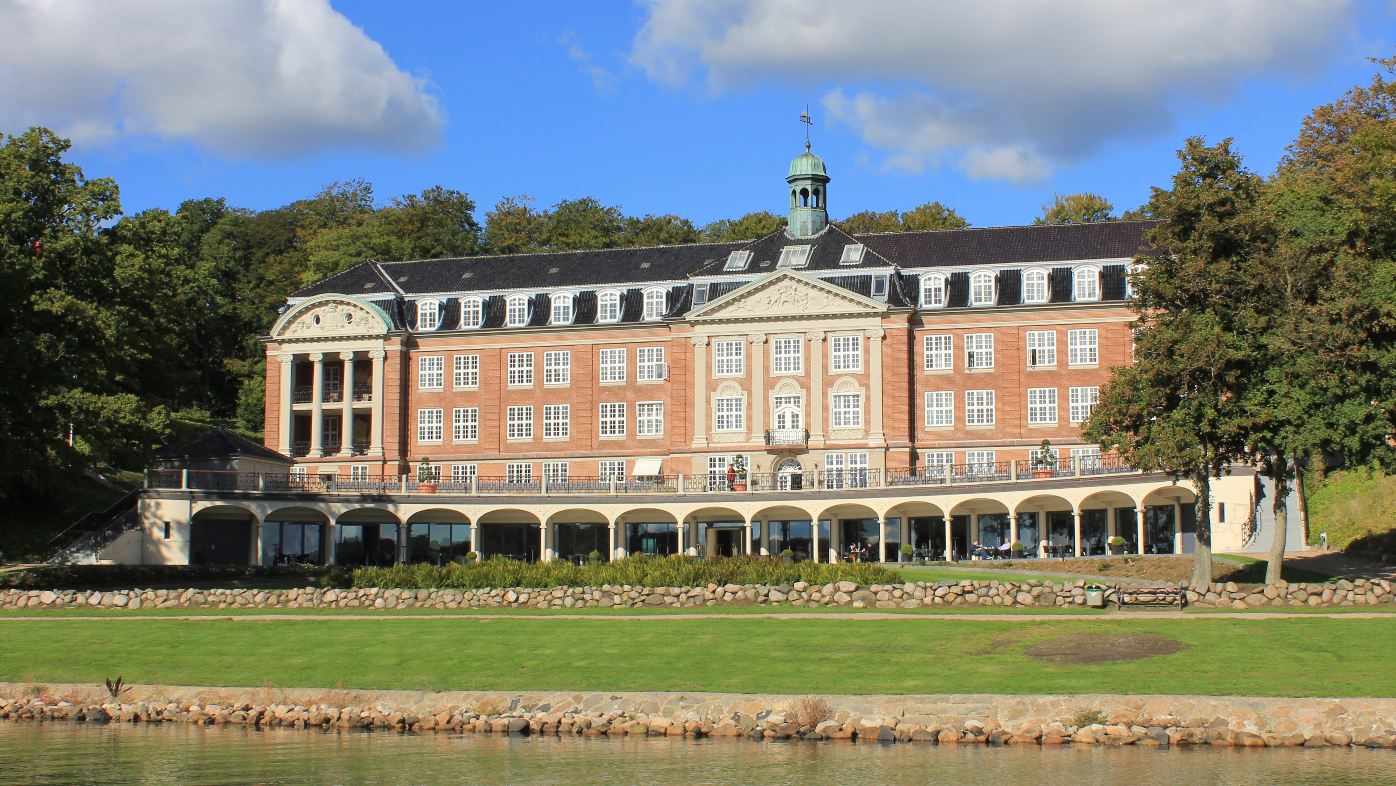 Hotel Kolding is a hotel and conference center, located on the north side of Kolding Fjord in Kolding, Denmark. It was originally built as a sanatorium in the early 1900s, but was later sold and the new owners renovated the buildings and made a hotel that was opened in 1990.